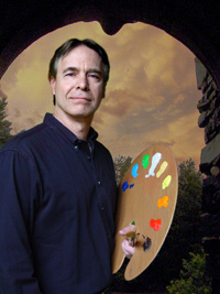 Low-rez portrait.